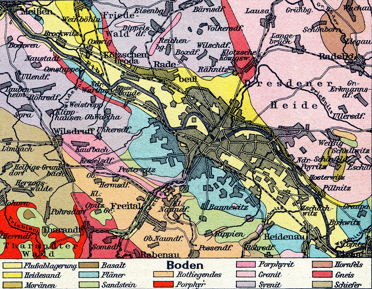 This is a part of an old atlas. It does not necessarily represent the current situation.